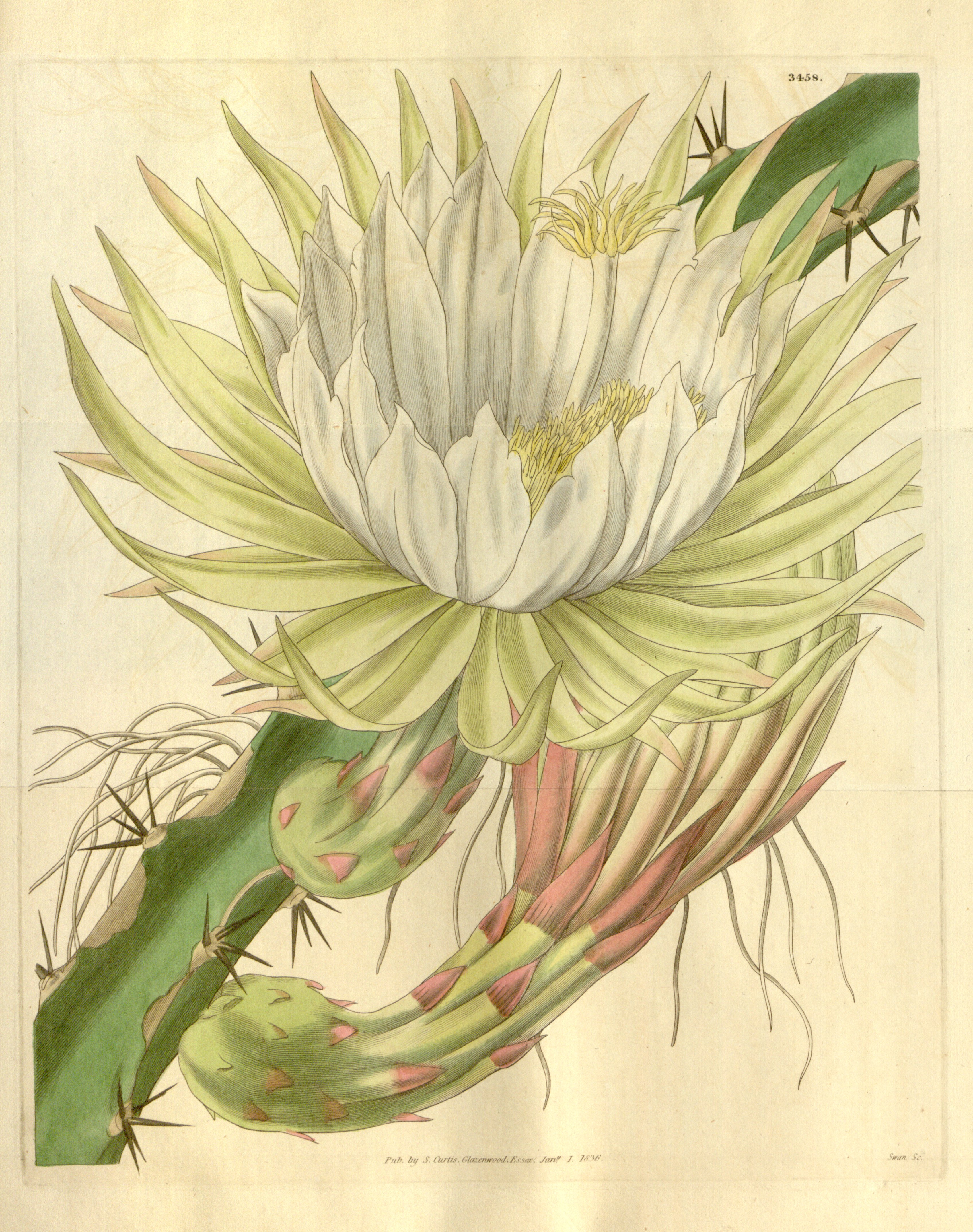 Illustration of Hylocereus triangularis